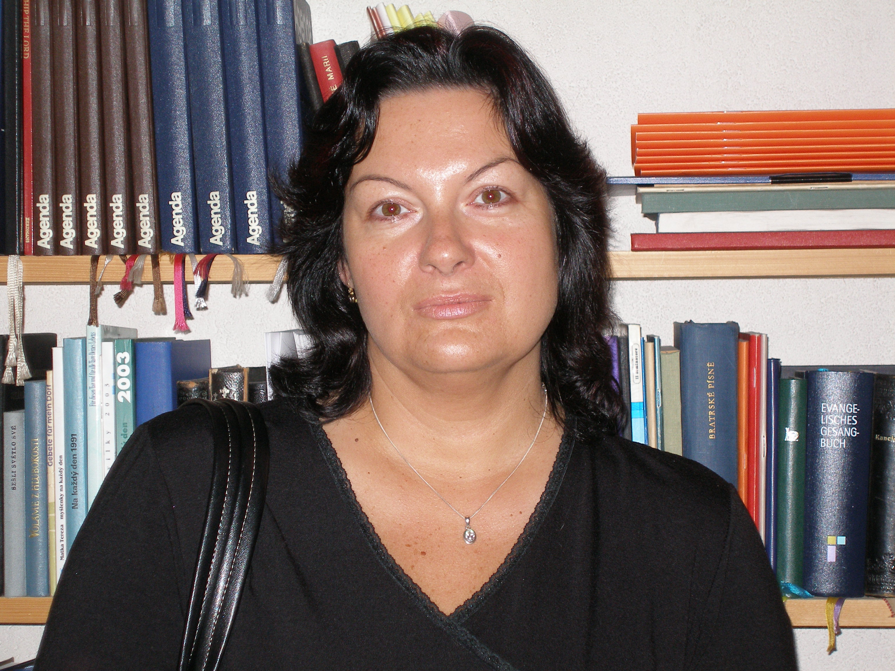 Photo of Simona Tesařová